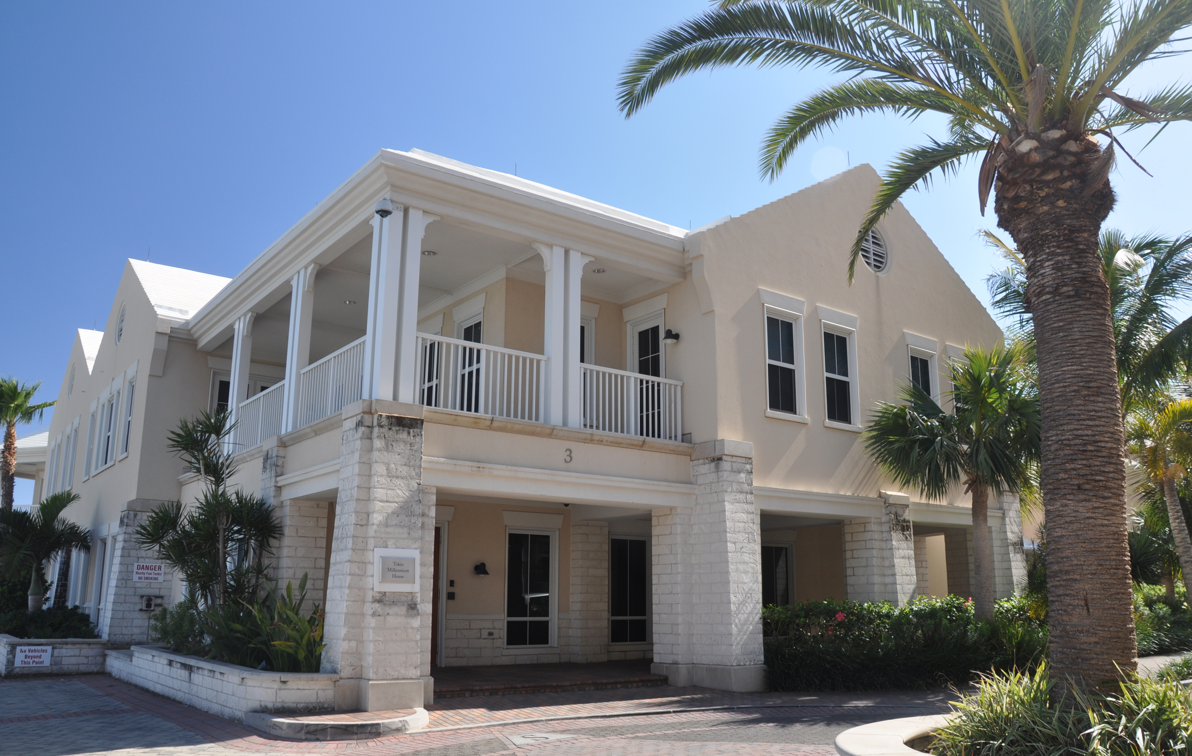 This is a picture of the Tokio Millennium House in Bermuda that I took and which I edited slightly in Gimp 2.